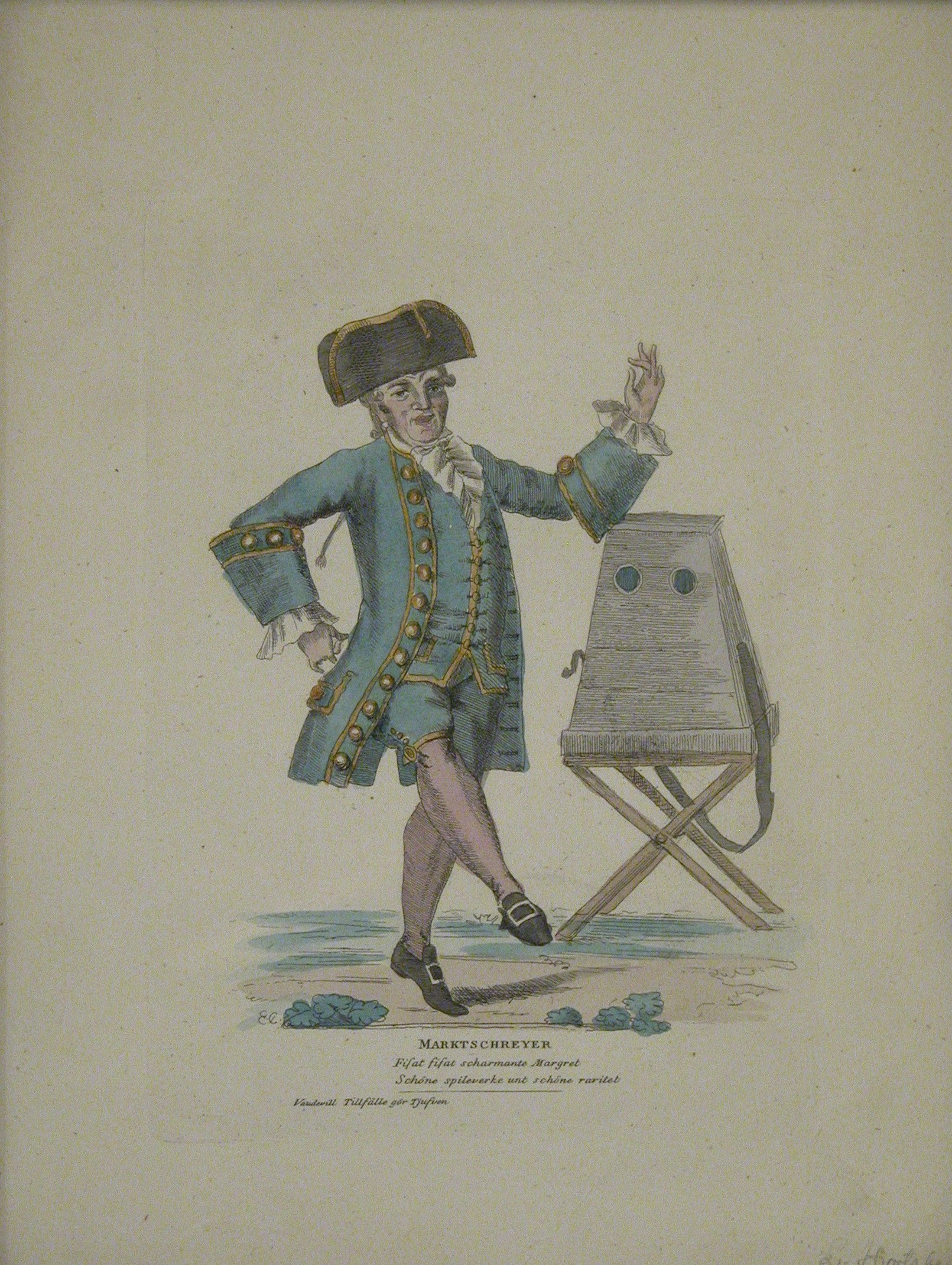 The swedish actor Lars Hjortsberg in Carl Israel Hallmans "Tillfället gör tjufven".